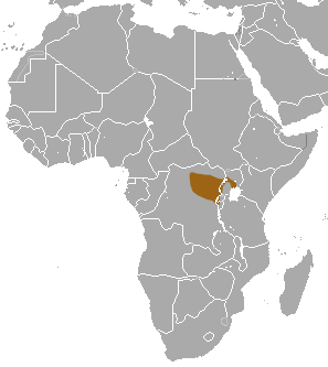 Armored Shrew (Scutisorex somereni) range